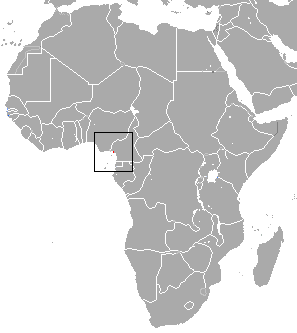 Eisentraut's Shrew (Crocidura eisentrauti) range